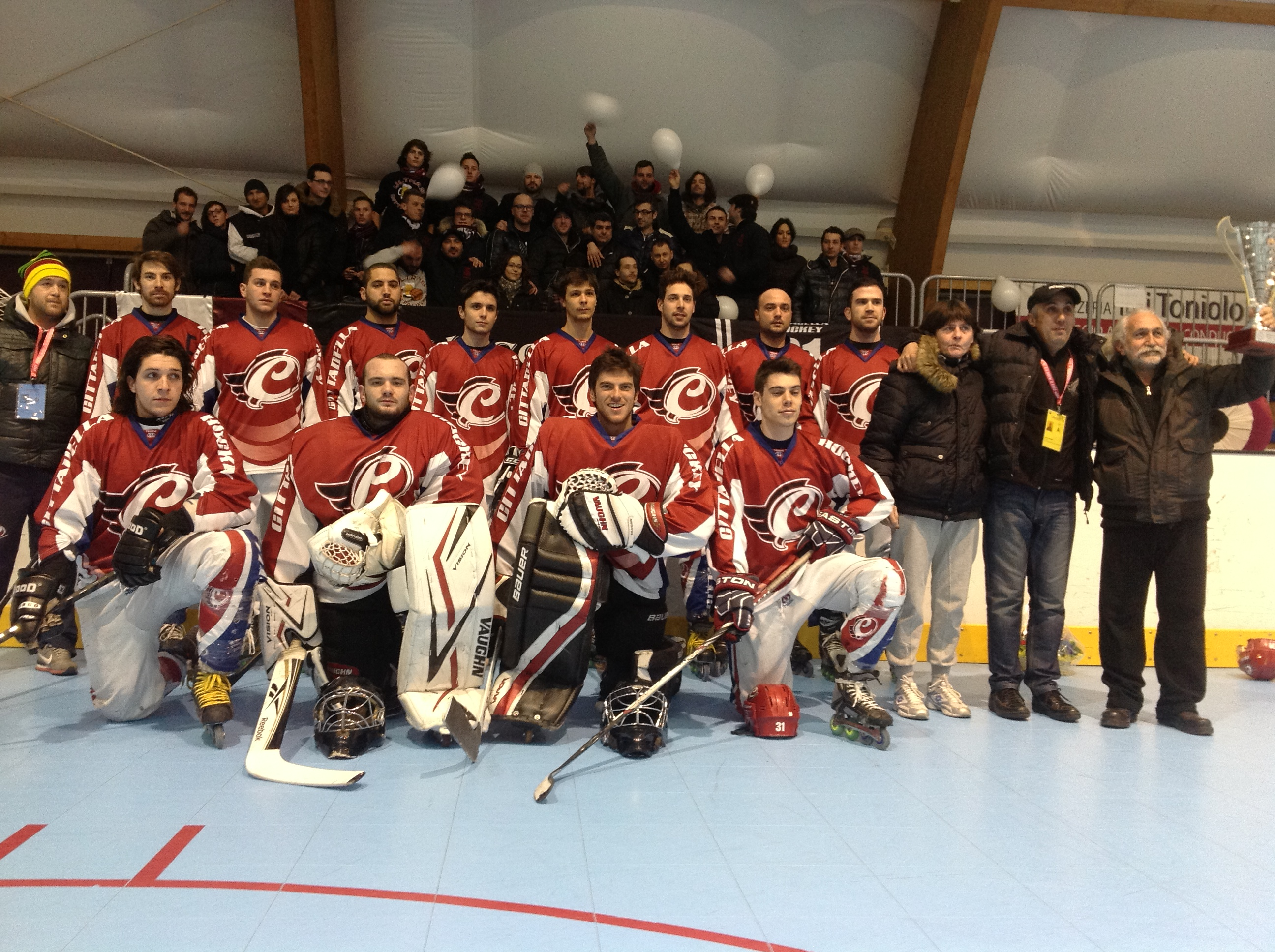 2012 - 13 roster